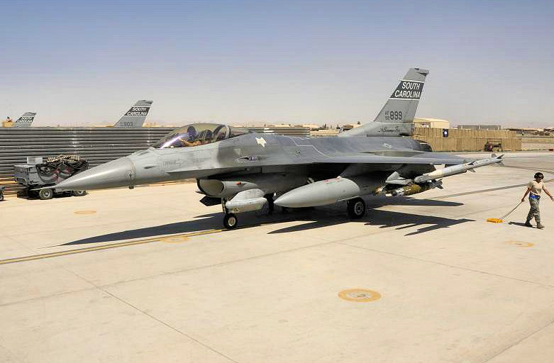 A1C. Alek Reynolds, a crew chief assigned to the 451st EAMXS at Kandahar Airfield, Afghanistan, pulls the tire chocks from F-16C block 52 #92-3899 piloted by Lt. Col. Scott Lambe, assigned to the 157th EFS, before launching for a mission May 21st, 2012. [USAF photo by TSgt. Caycee Cook]